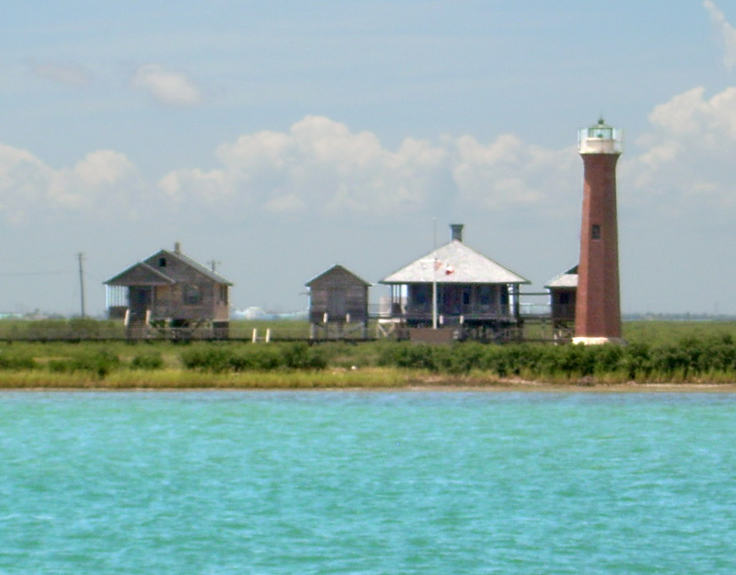 Lydia Ann Channel Lighthouse at Aransas Pass. Listed on the National Register of Historic Places.